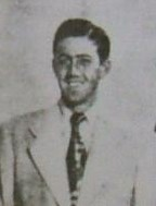 Seven young Australian sports stars profiled in a magazine.L-R: Bob Simpson, Lew Hoad, Jon Henricks, Lorraine Crapp, Ken Rosewall, Bob Crampton, Ian Craig